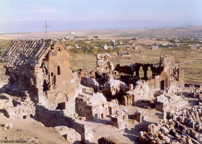 Saint Sargis Monastery of Ushi prior to restorations in 2003-2004.